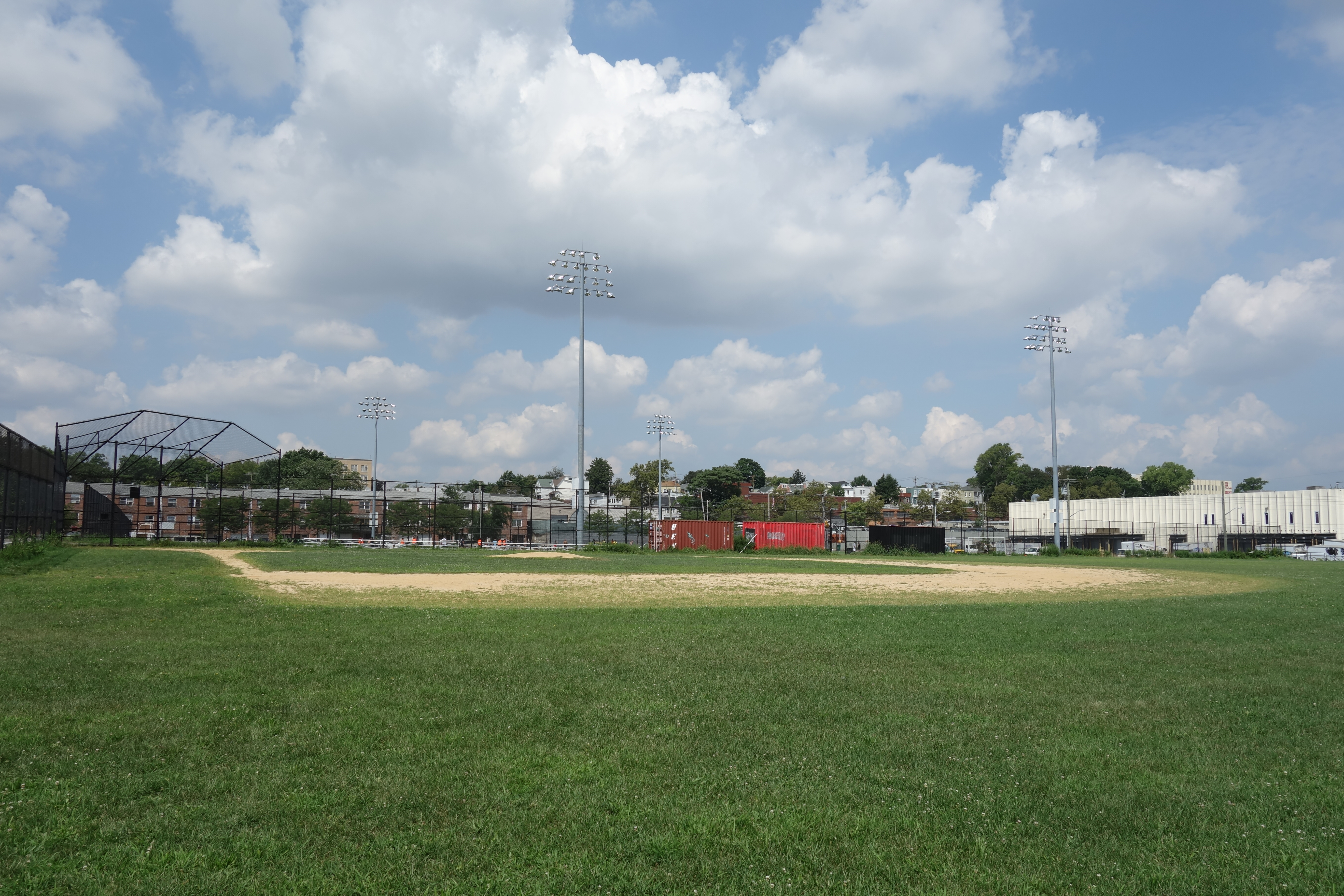 Inside Jimmy Sandorf Field (Baseball Field 4) in the northern section of the College Point Fields, a.k.a. the College Point Sports Complex, near the former Flushing Airport at Ulmer Street / 130th Street and 25th Avenue in College Point, Queens. The field along with field 3 were constructed during the 2010 renovations. One of two adult / high school (90-foot) fields in the complex, this field is very well landscaped, although it has a bit too much overgrowth.